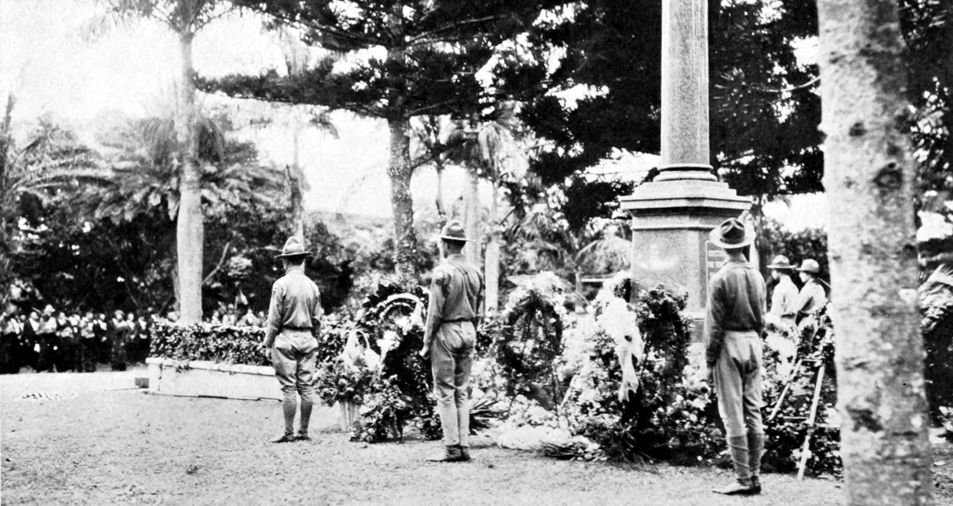 A scene at the royal mausoleum, showing a part of the floral contributions, with the Queen's own troop of Boy Scouts on guard.